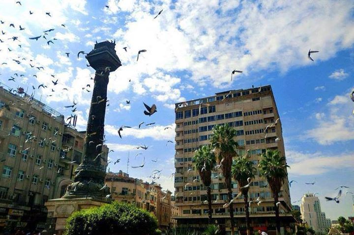 damascus city , al marja square